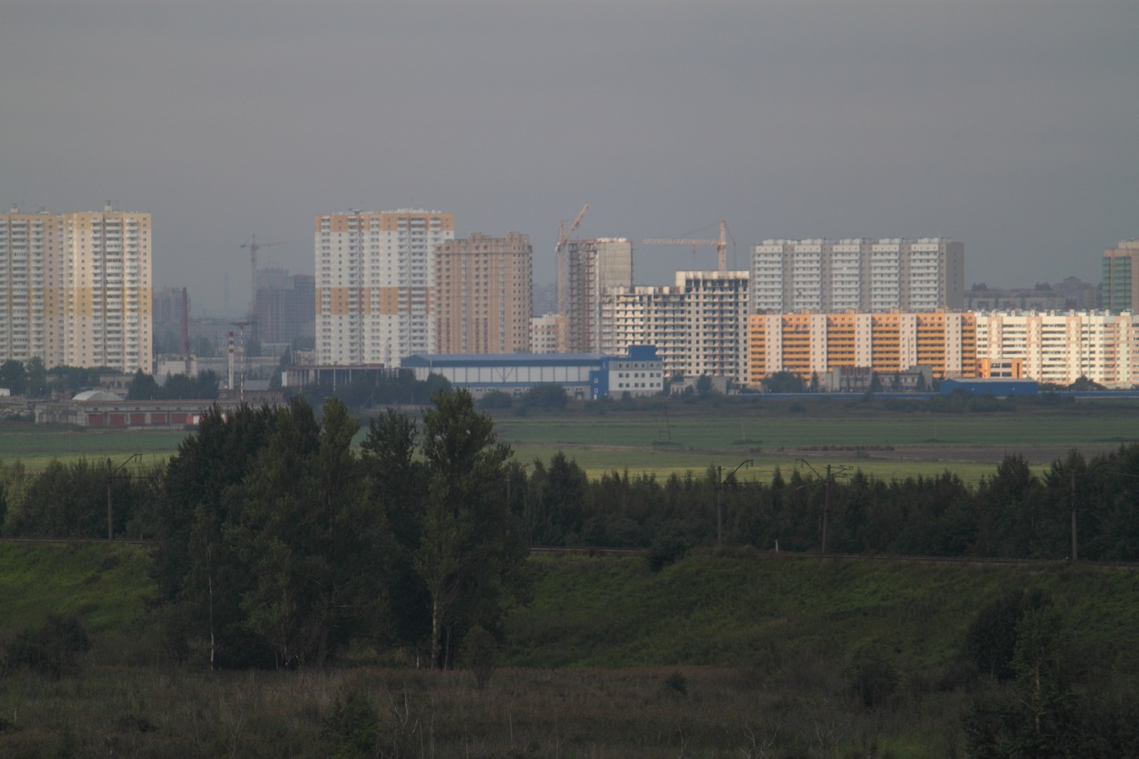 Shushary - southern suburb of St.Petersburg